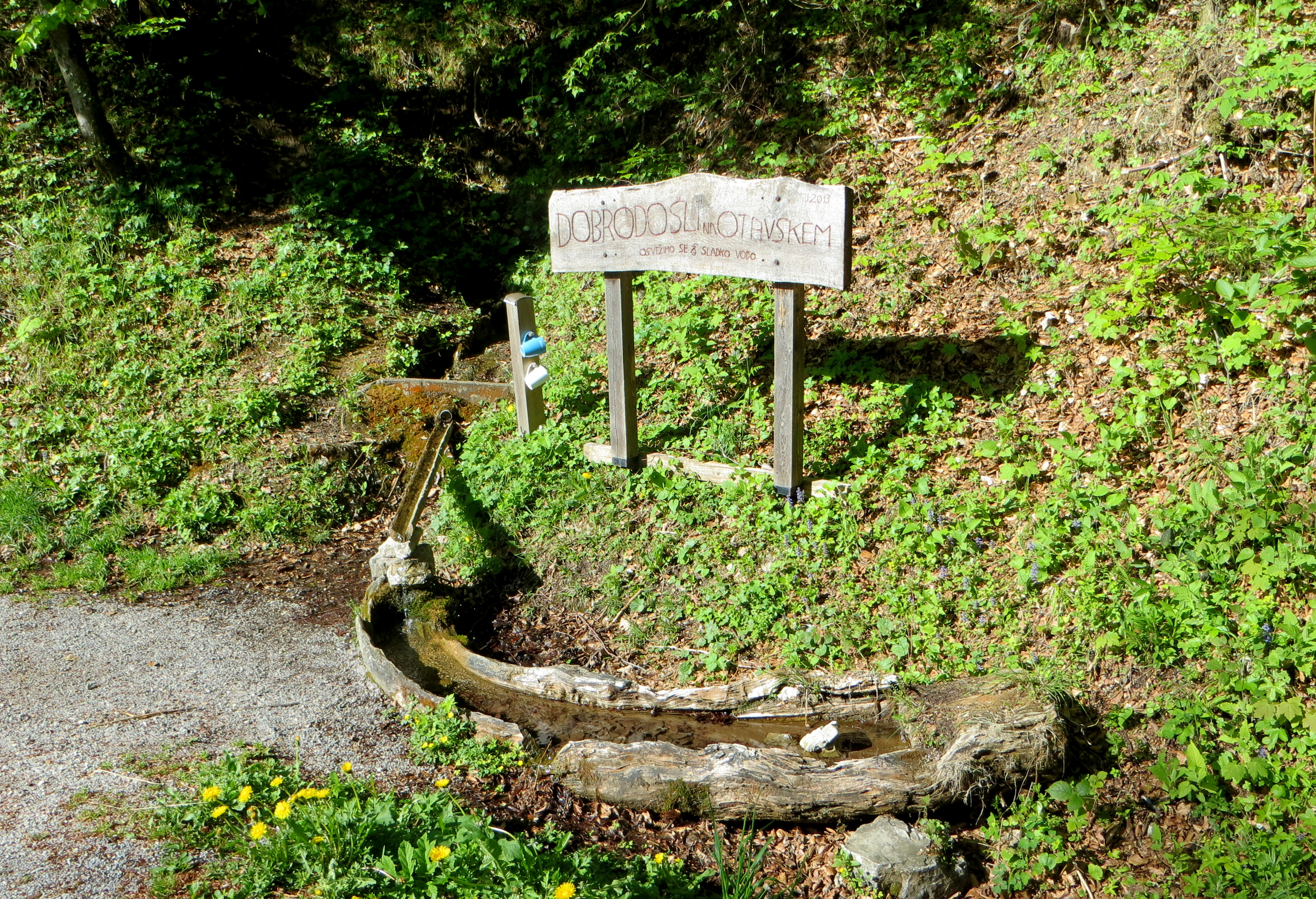 Sladka Voda (Sweetwater) Spring in Stražišče, Municipality of Cerknica, Slovenia